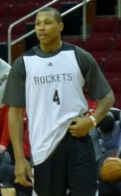 Thomas Robinson, Donatas Motiejunas, and Greg Smith at a 2012 open practice.